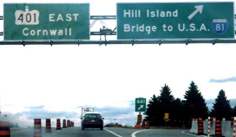 User:Carlb The "Penn-Can highway" Interstate 81 begins at the United States-Canada border and goes through New York and Pennsylvania to Knoxville